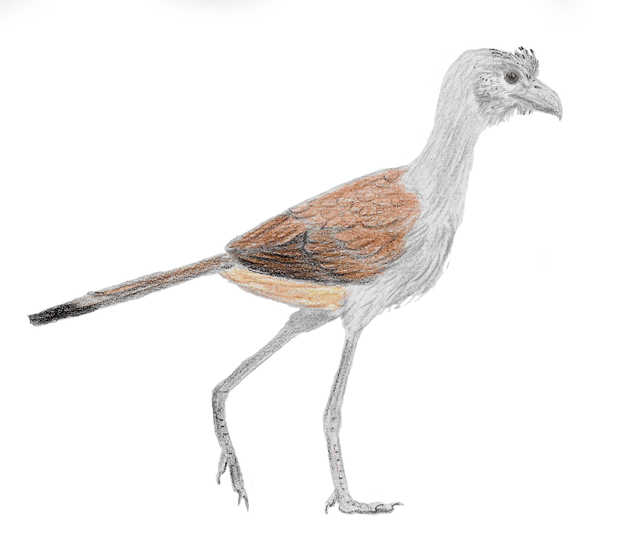 Life restoration of Strigogyps sapea, a flightless predatory bird from the Eocene of Germany. Head shape and size is hypothetical, based on seriemas and phorhusrhacids